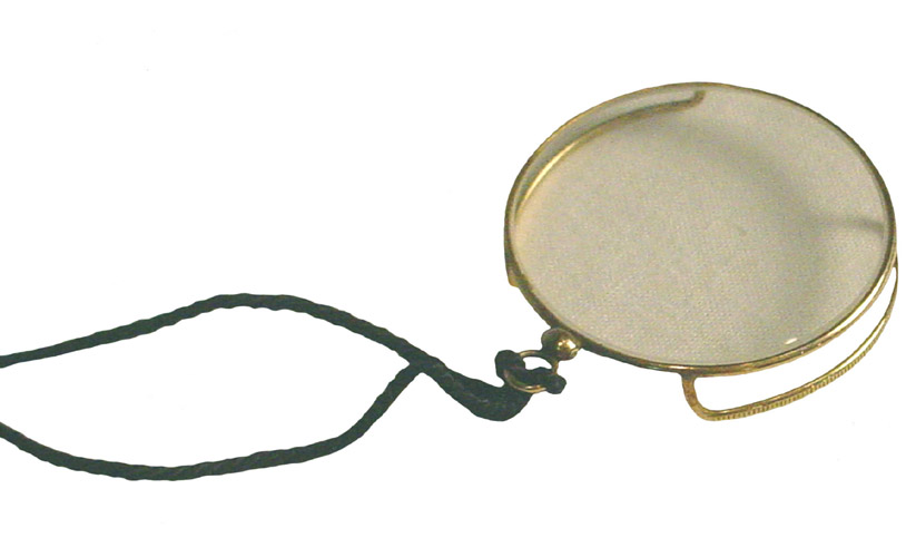 Early 20th century gold filled monocle with gallery.